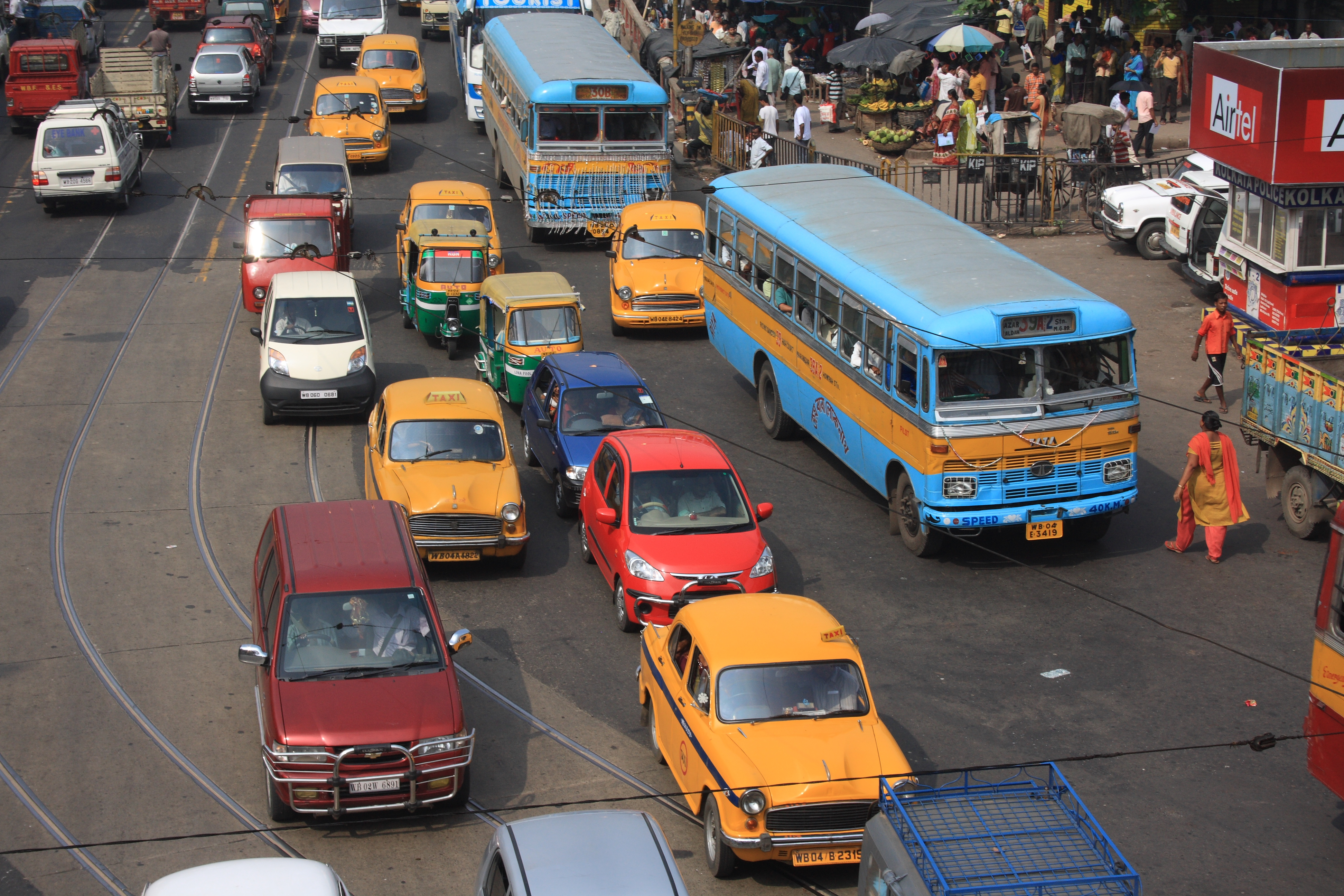 Taxis, buses and other cars stuck in the ever honking traffic in Kolkata near Sealdah train station.